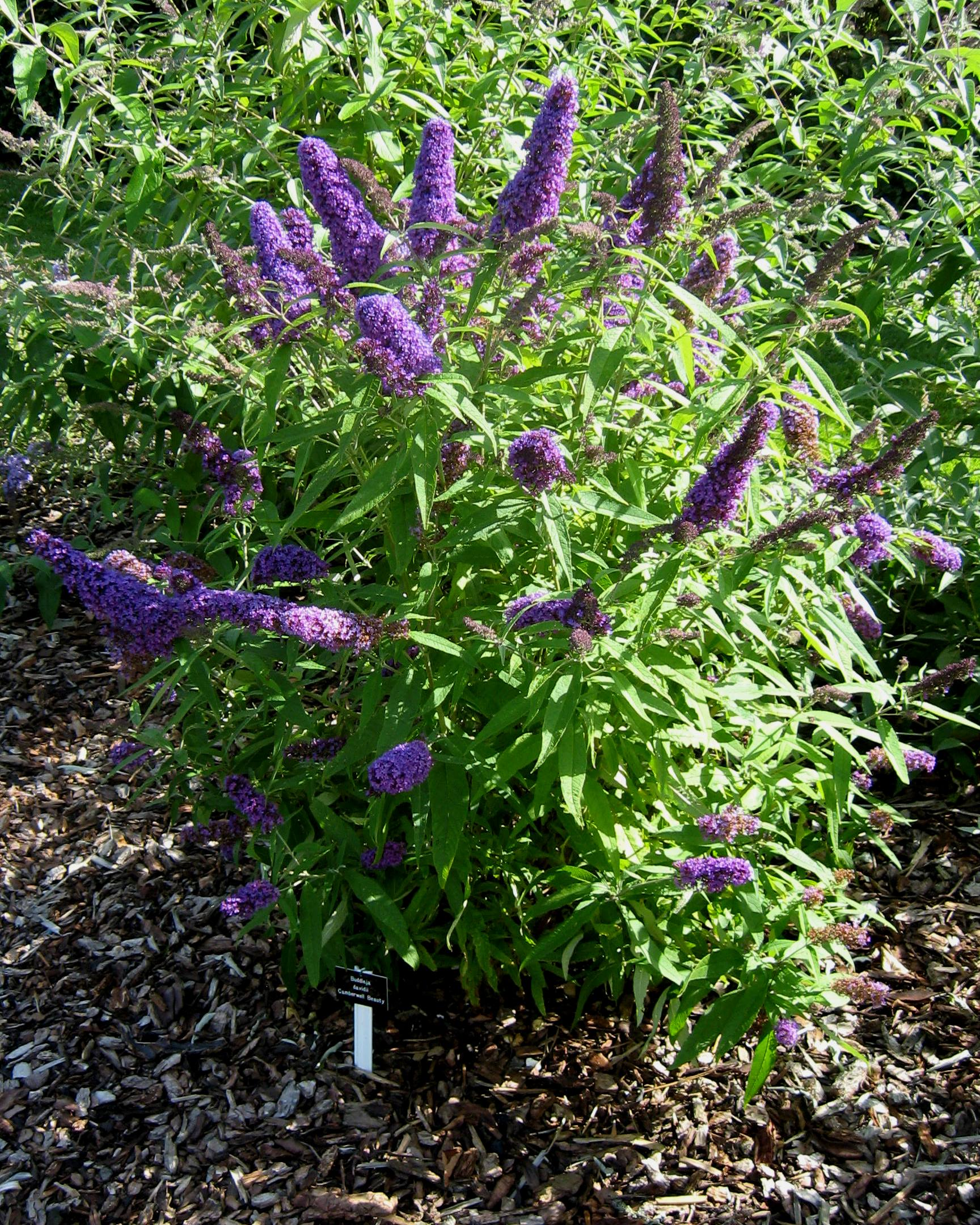 Photo of Buddleja cultivar 'Camberwell Beauty' taken at Longstock Park, UK, August 2012